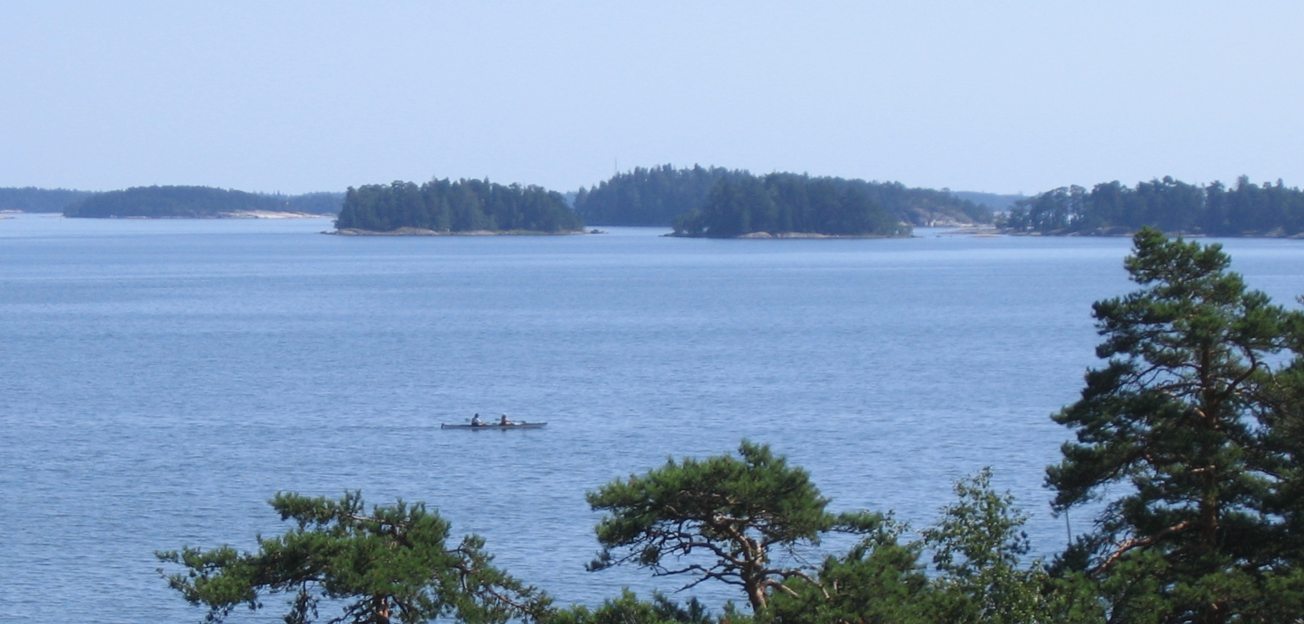 Kayakers in the archipelago of Sipoo, Finland, EU.